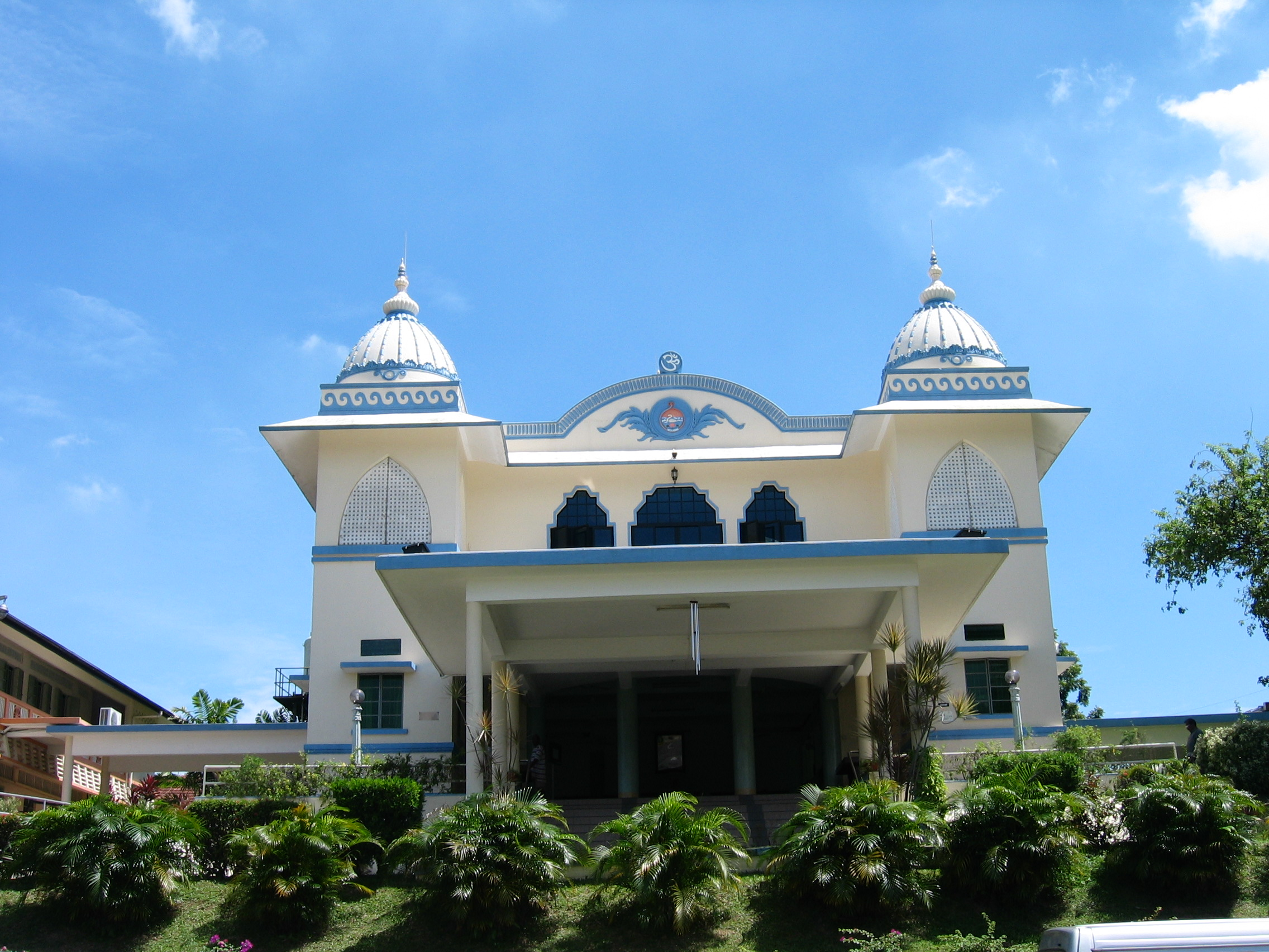 Prayer hall building at the Sri Ramakrishna Mission campus, Singapore